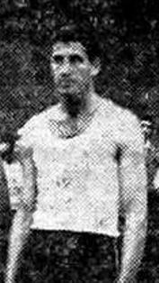 Trajko Rajković (7 December 1937 – 27 May 1970) was a Yugoslavian basketball player.